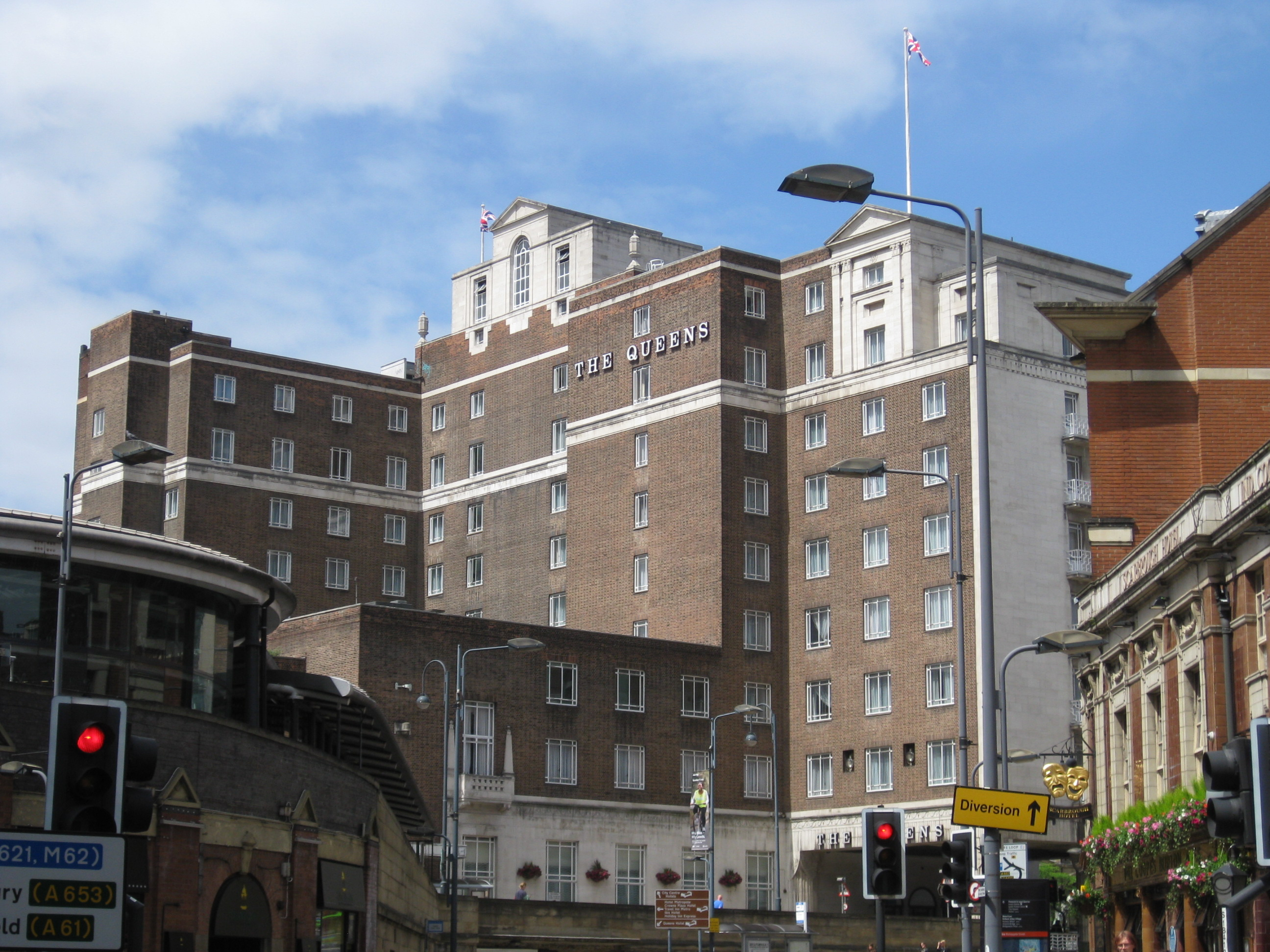 The Queens Hotel, Leeds. Viewed from Bishopgate Street.